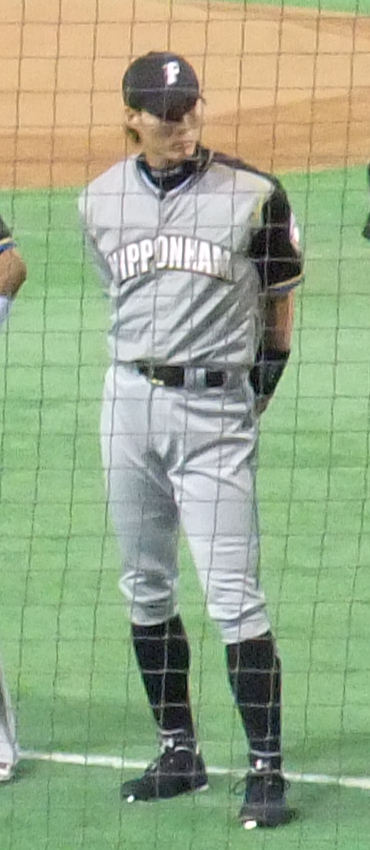 Yoshio Itoi, outfielder of the Hokkaido Nippon-Ham Fighters, at Tokyo Dome.